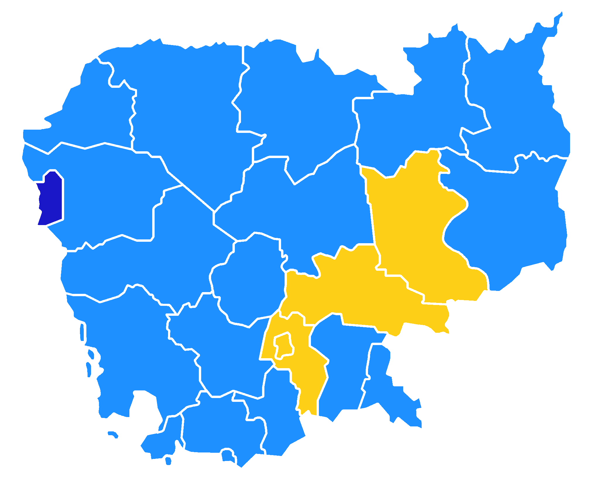 Map depicting the results of the Cambodian general election of 1998.